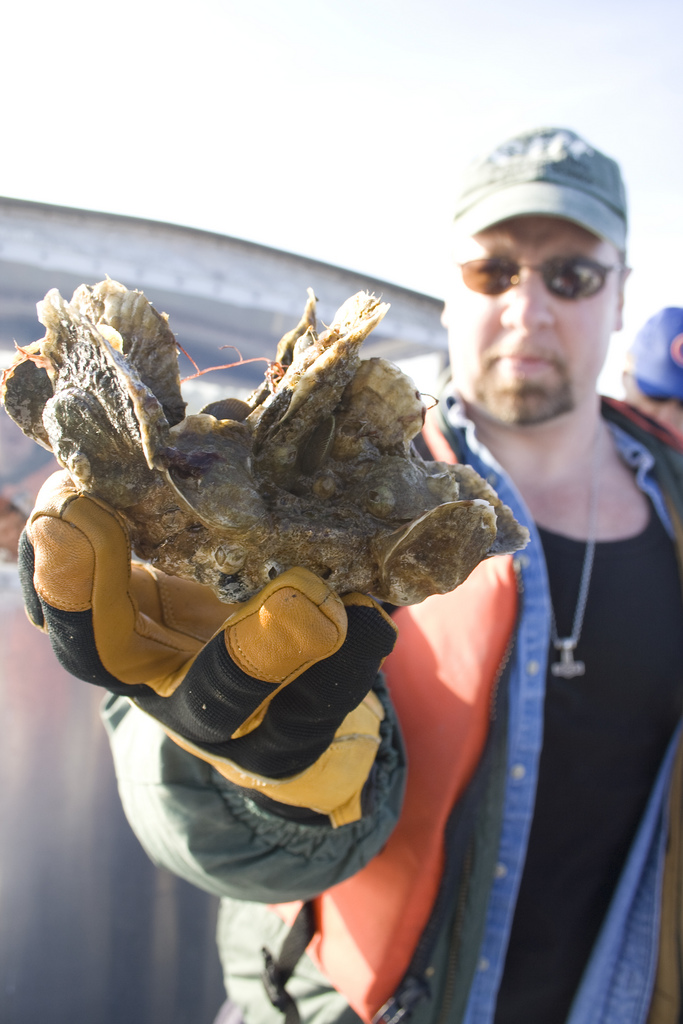 Norfolk District Oceanographer Dave Schulte displays a cluster of oysters which were growing on the district's sanctuary reefs in the Great Wicomico River. See more at Corps of Engineers restoring oysters in Chesapeake tributaries